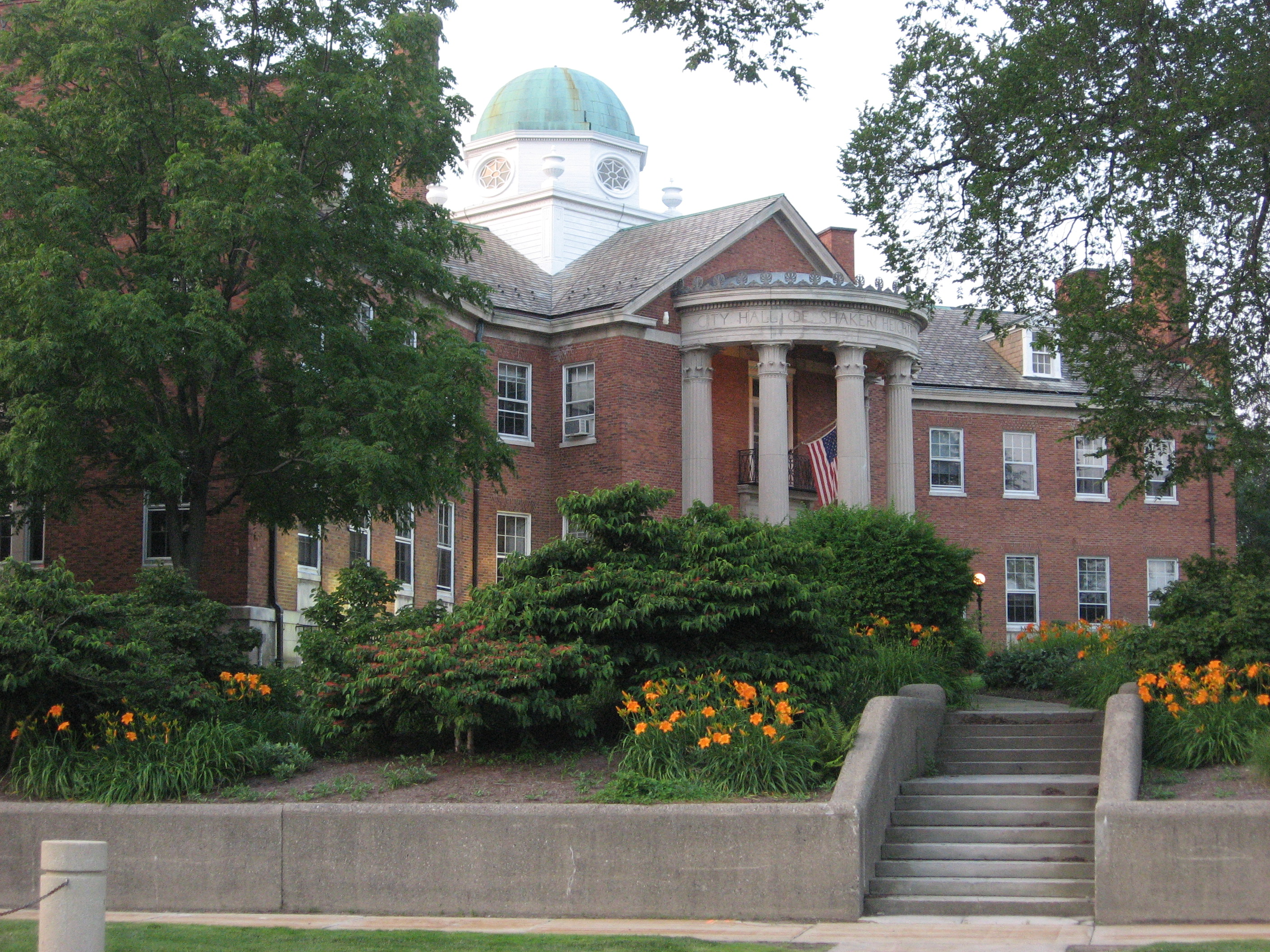 A picture of the Neo-Georgian Shaker Heights City Hall.